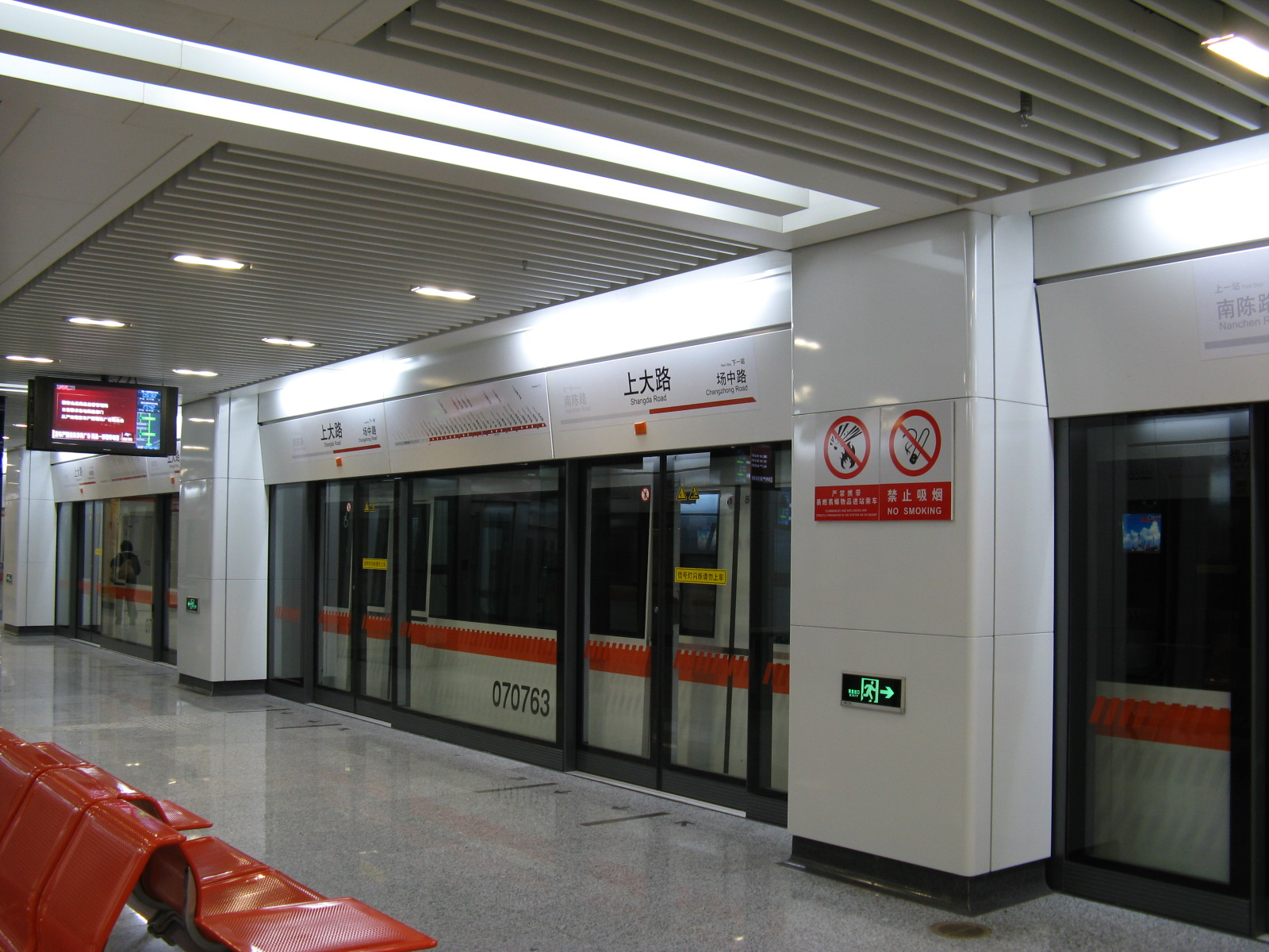 Shangda Road Station Line7 Shanghai Metro